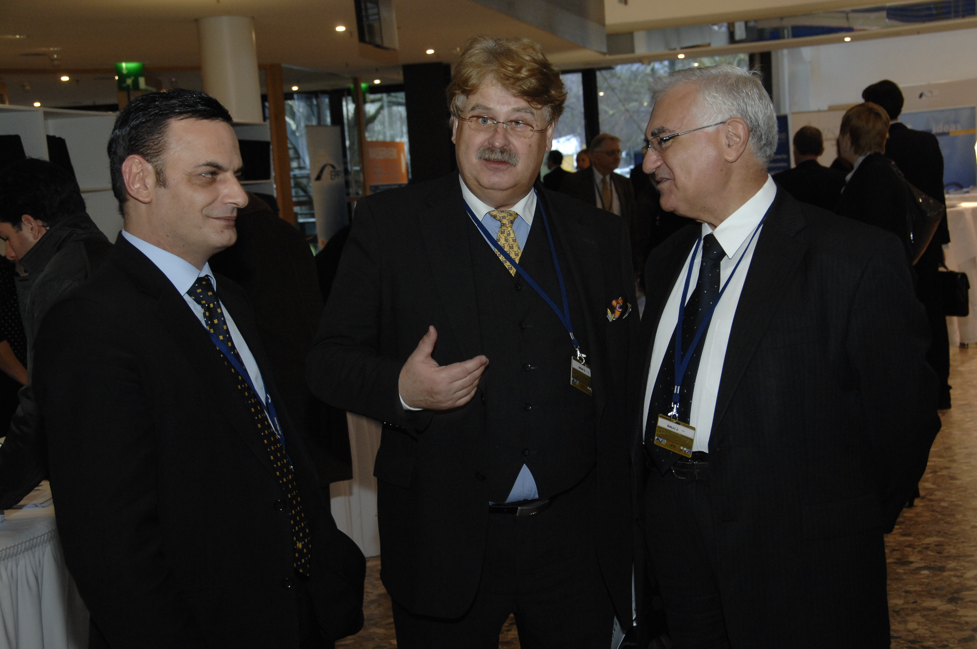 EPP Congress Bonn